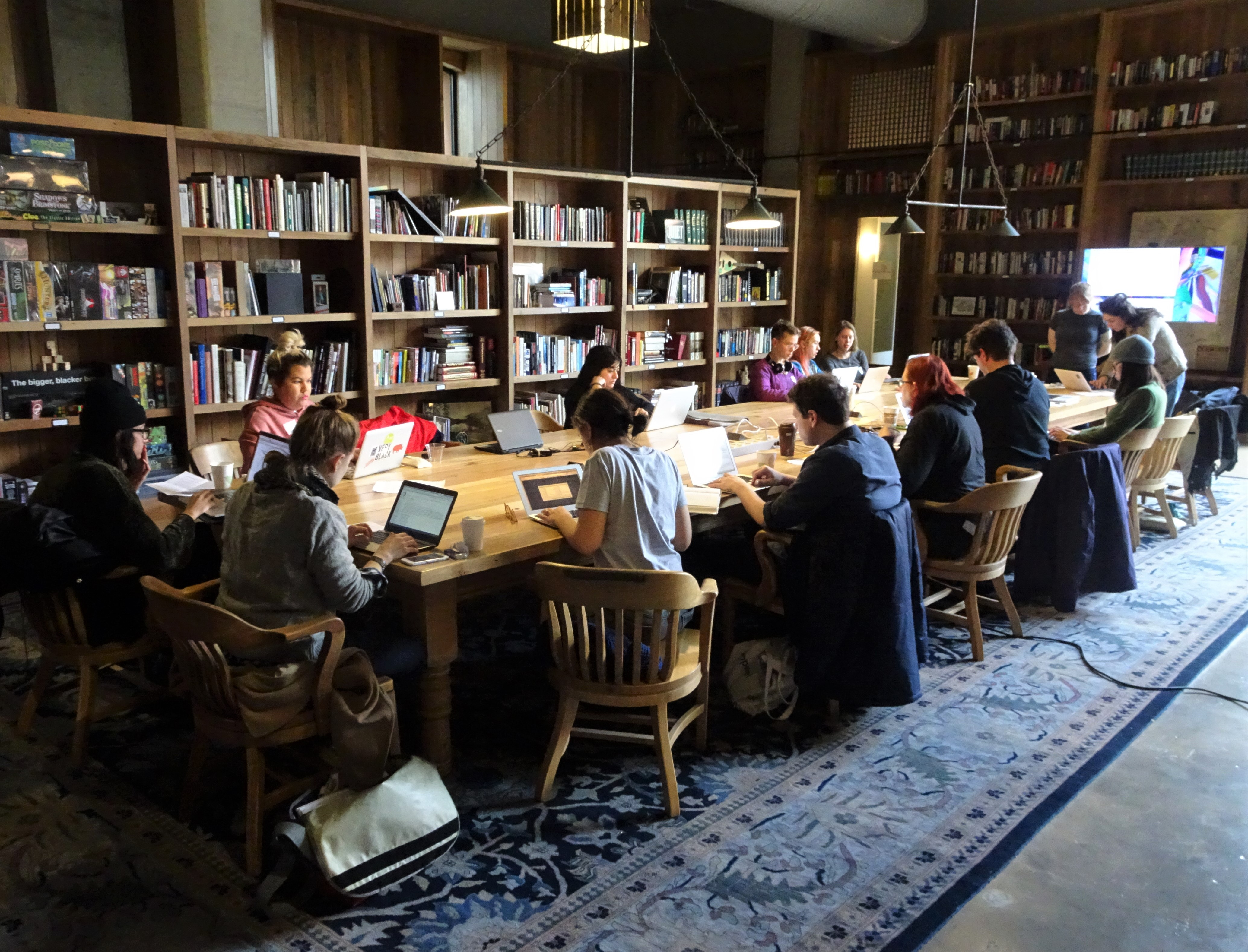 Looking east in 2nd floor library of Kickstarter, at Art+Feminism session.